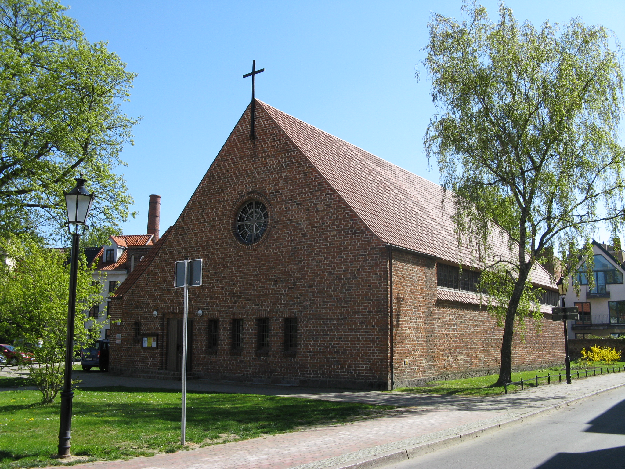 Church Neue Kirche (New Church, 1951) in Wismar, Mecklenburg-Vorpommern, Germany